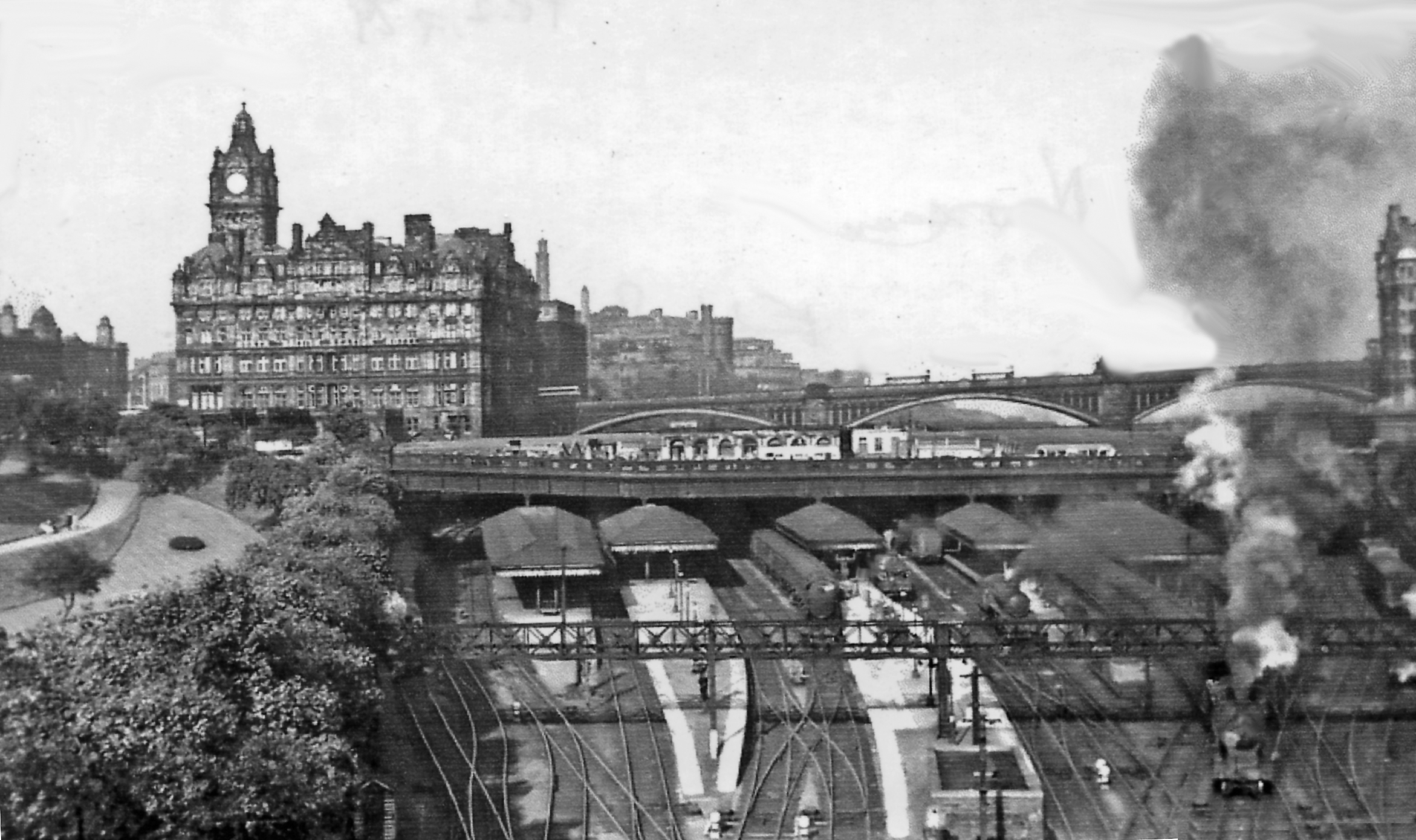 Edinburgh Waverley Station - the classic view from The Mound. View eastward from The Mound over the Station to Waverley Bridge and North Bridge. Princes Street is far left, passing the prominent North British Hotel; Calton Hill is in centre background. On the left are the North Loop lines, then Platforms 19 to 11 of the West End of the main station in sequence across to the right, then the South Loop lines leading to the Suburban Station (platforms 20/21) and the Goods station. Waverley West Box is just out of view to the right. A train is leaving from Platform 12 with an ex-NB 4-4-0 and there are also two B1 4-6-0s visible. (You would never believe that the day before so much rain fell that both main line routes south to England were blocked by floods, the main ECML to Berwick being out of use for three months with 13 bridges swept away or damaged).